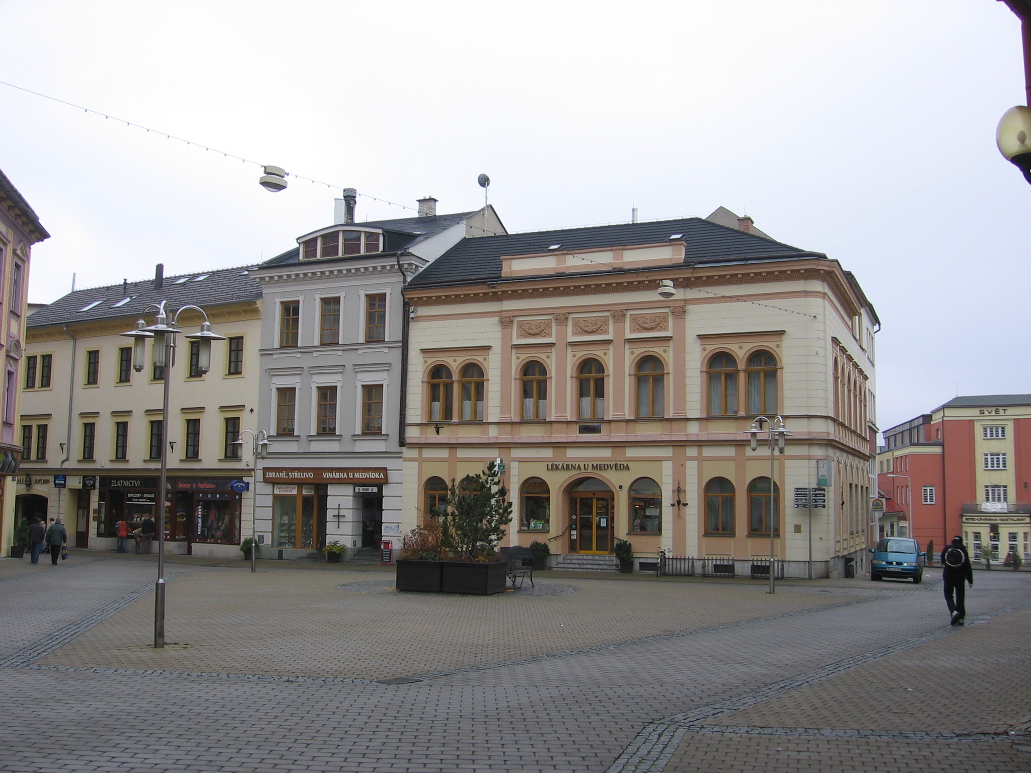 Pedestrian zone (Hlavní třída) in Šumperk (Olomouc Region, Czech Republic)